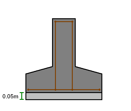 una plantilla de bajo de una zapata